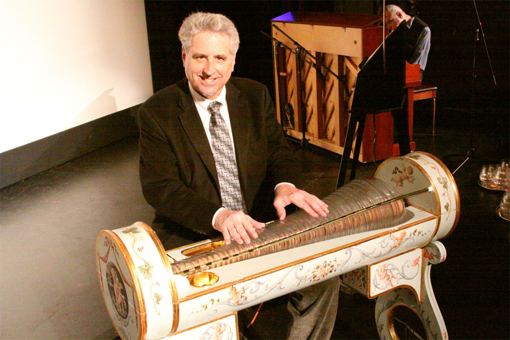 Dennis James plays the Glass Armonica at the Poncan Theatre in Ponca City, Oklahoma on April 2, 2011. Photo Credit: Hugh Pickens Note: This photo is licensed under a Creative Commons Attribution 3.0 license which means that attribution must be provided with any use of this photo in the manner specified by the author. Any use of this photo or any derivative work using this photo in print or on the web must include as an attribution, a photo credit to Hugh Pickens as indicated above and, if used on the web, must include a link to the web site of Hugh Pickens at